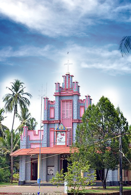 St. George Church, Puravayal, situated at the centre of a serene hilly greenery in kannur district of Kerala